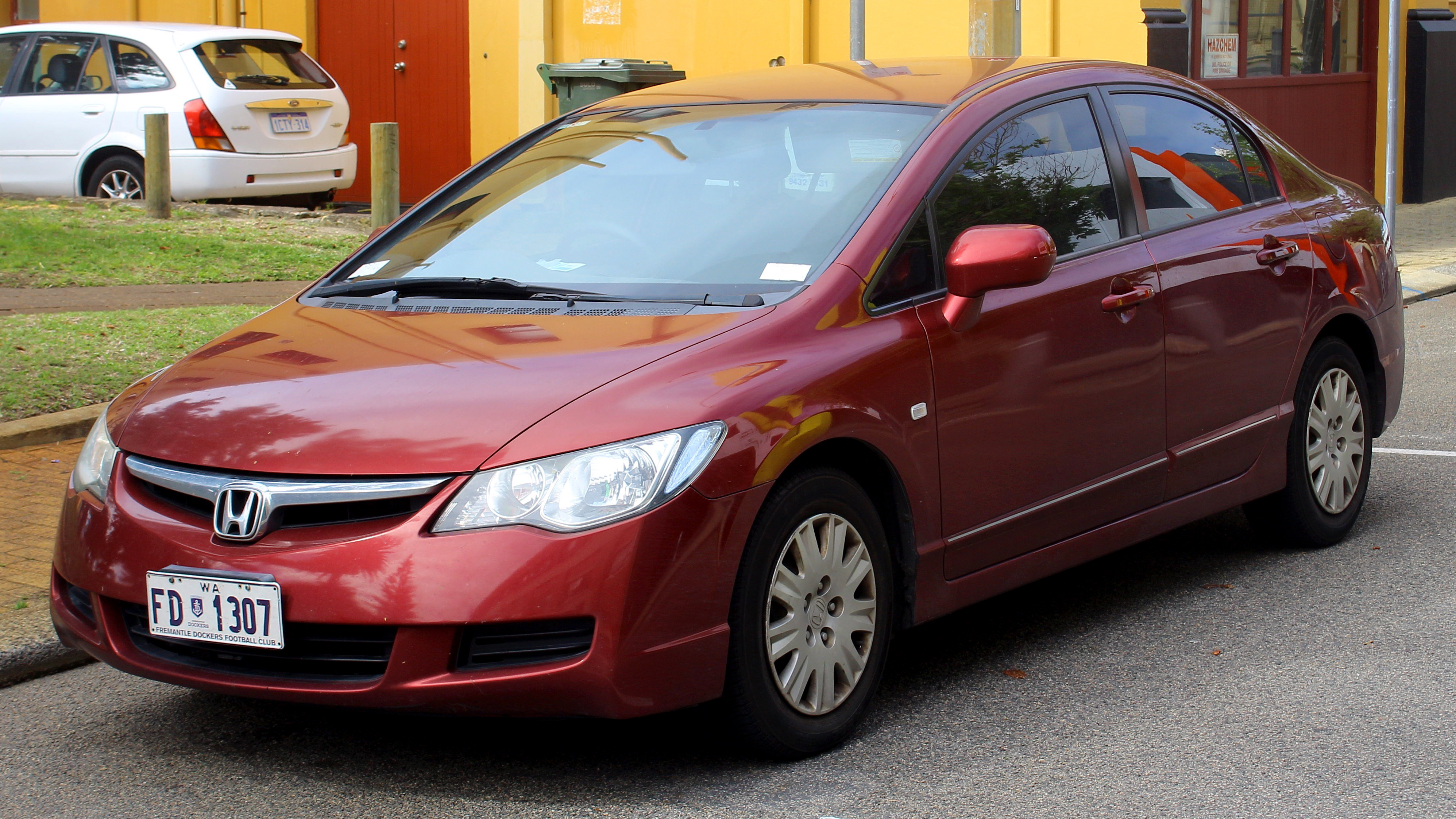 2006-2009 Honda Civic VTi sedan. Photographed in Fremantle, Western Australia, Australia.